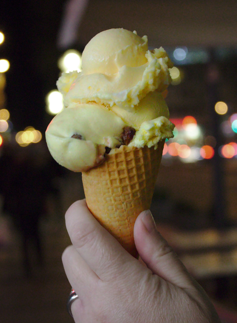 An icecream cone with two scoops, Rum and Raisin flavour below, and Mango flavour above.